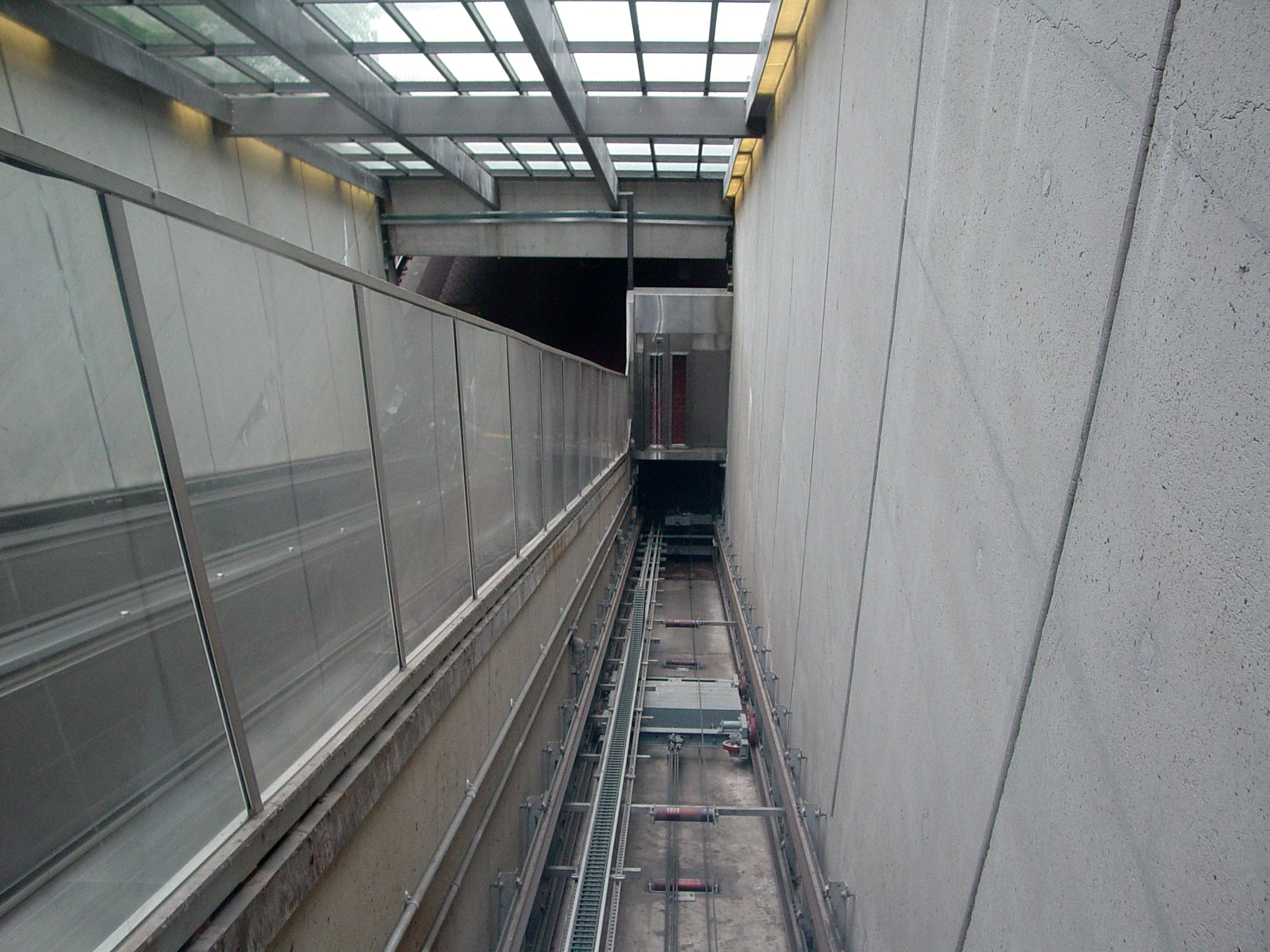 Washington Metro. Funicular elevator at Huntington station, looking down the track from inside the elevator car.